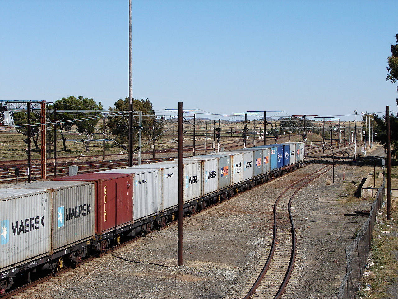 Springfontein station